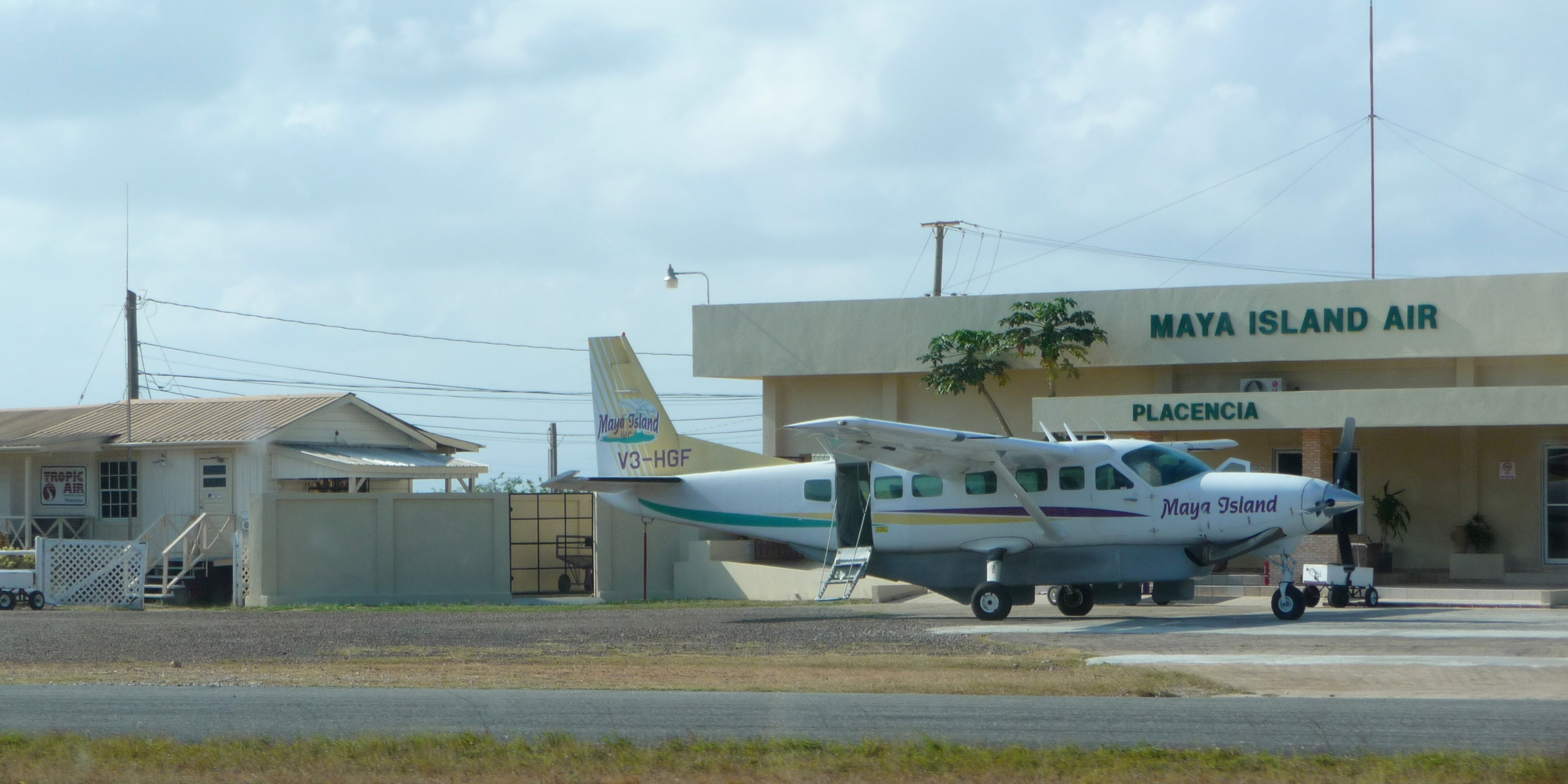 Placencia Airport in Placencia, Belize.